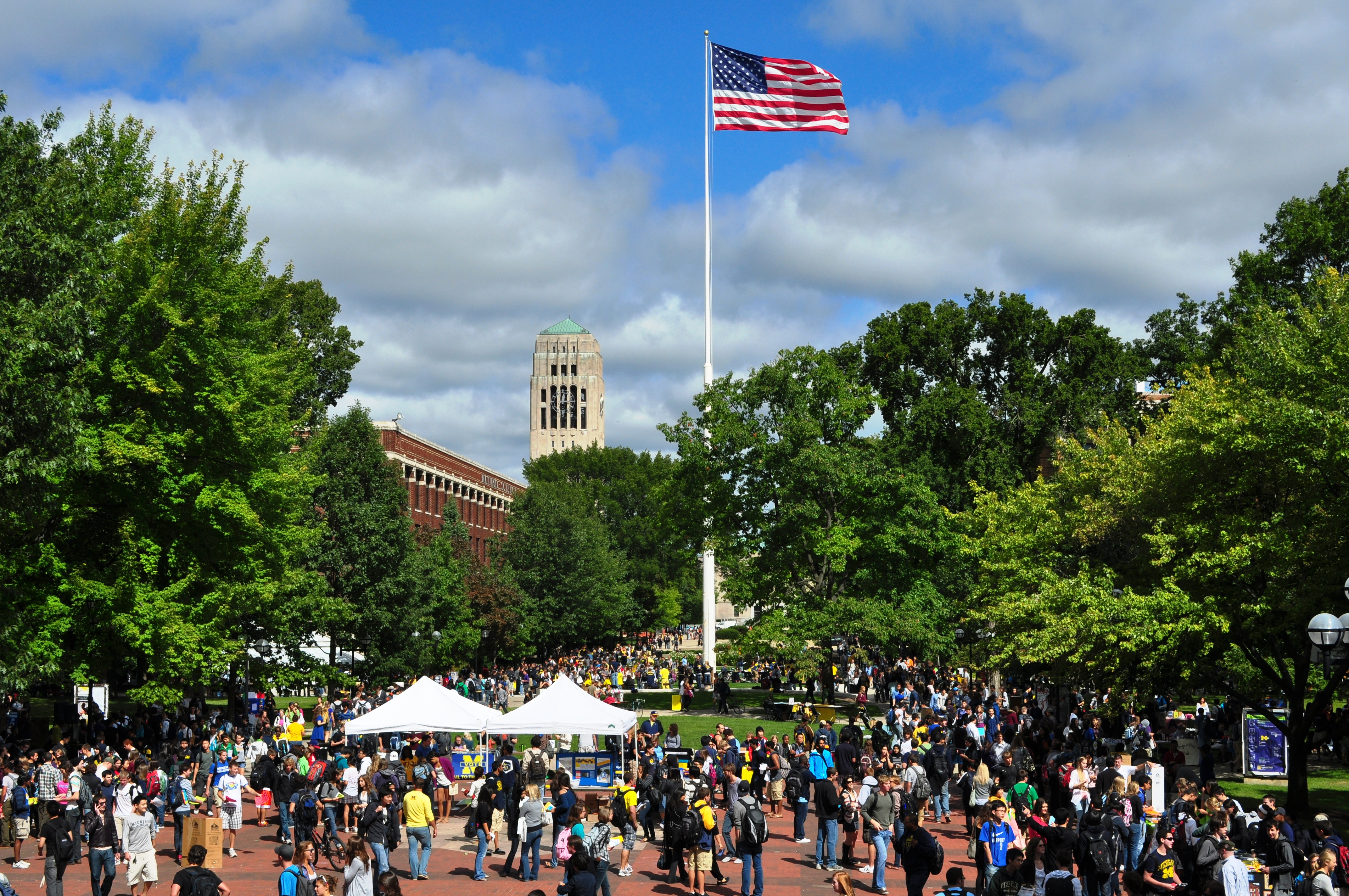 University of Michigan Diag during Festifall in September 2010.